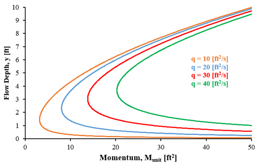 different m-y curves for a single flow